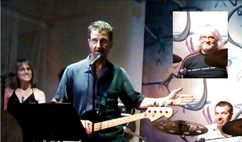 Game Theory performing on July 20, 2013, at a memorial tribute for Scott Miller in Sacramento, California. Photo composite. L-R: Nan Becker, Fred Juhos, Dave Gill (inset), Michael Irwin.